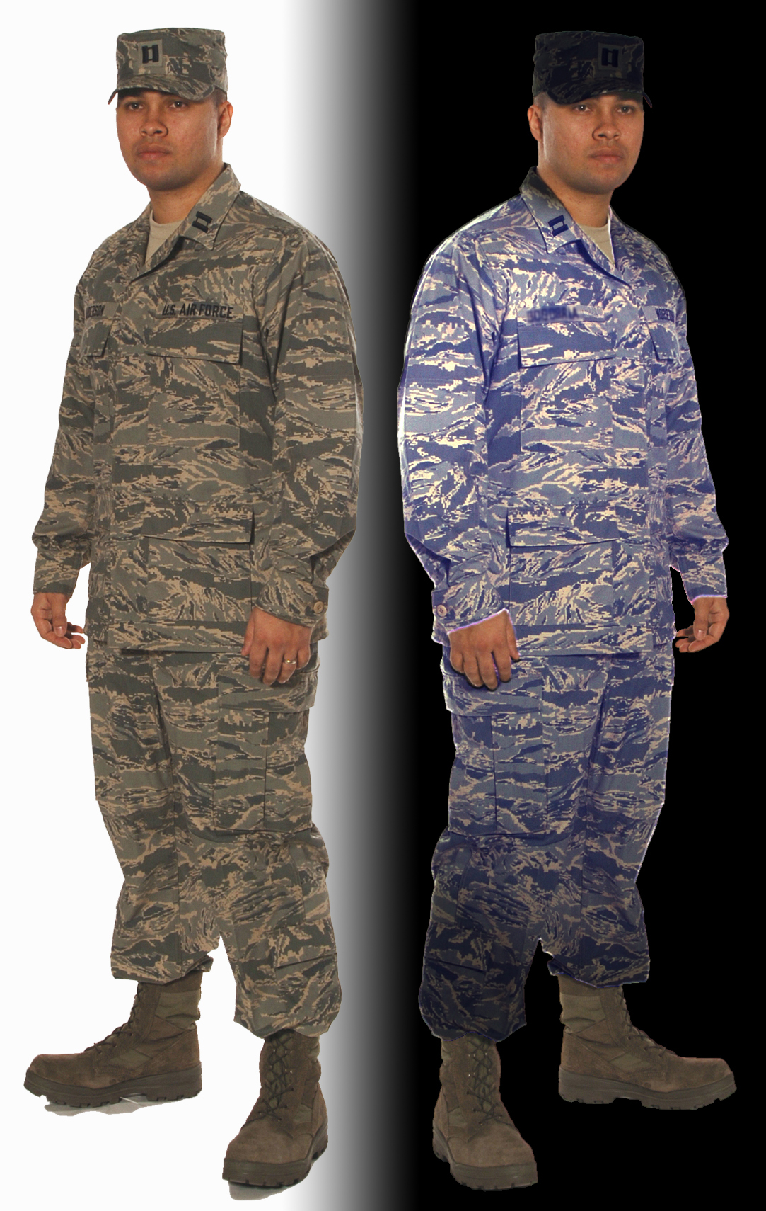 Press release title: Optical brightners make ABUs dangerously easy to see. Image caption: Optical brighteners in laundry detergent make the Airman Battle Uniform more detectable by night vision equipment and more visible in a low-light environment of any kind, by reflecting more of any available light Airmen must wash the ABUs with detergent that does not contain optical brightners.